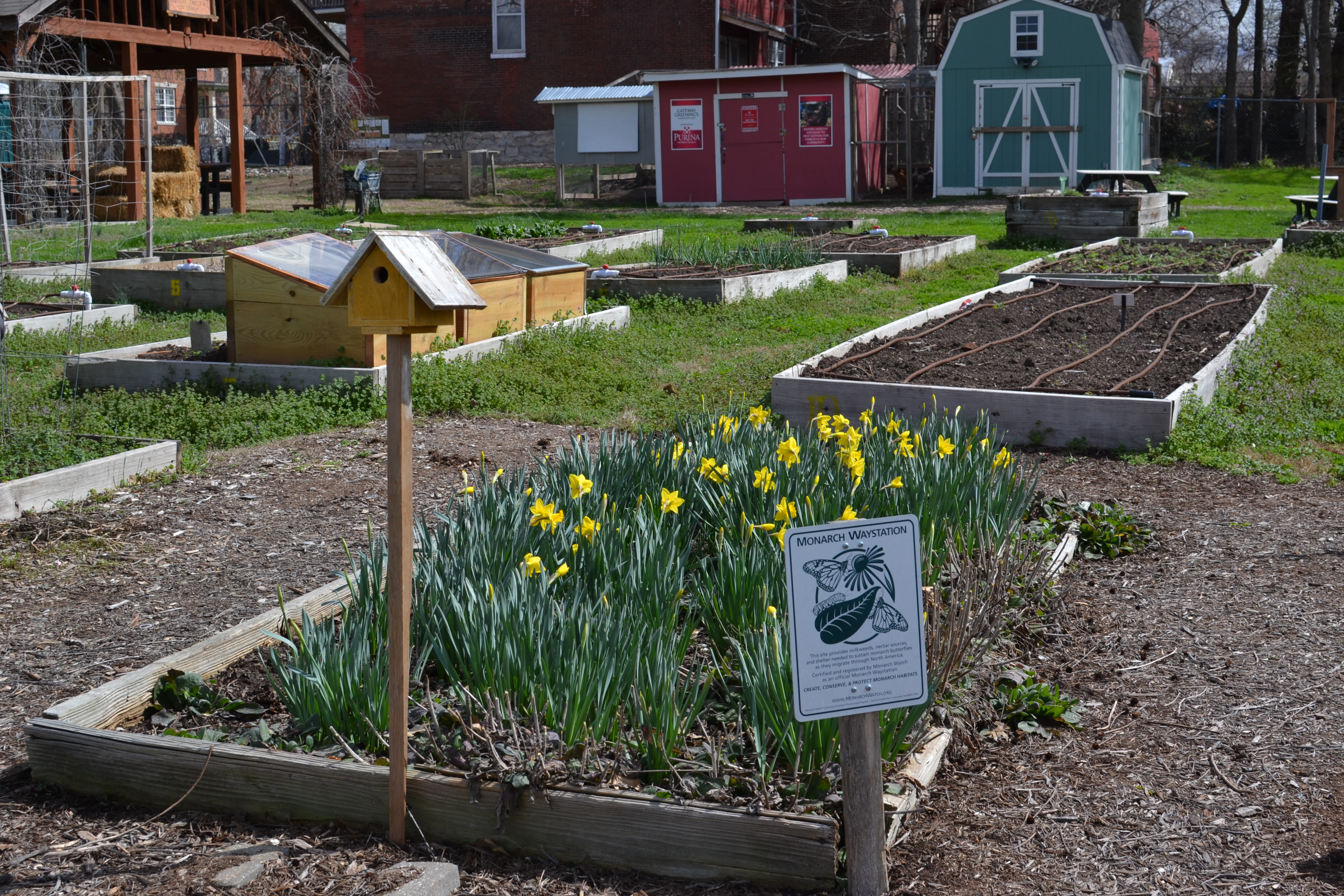 Bell Demonstration and Community Garden is an integral part of Gateway Greening's community education program, including 20 demonstration beds, a community chicken coop, compost bins, and a sheltered outdoor classroom.